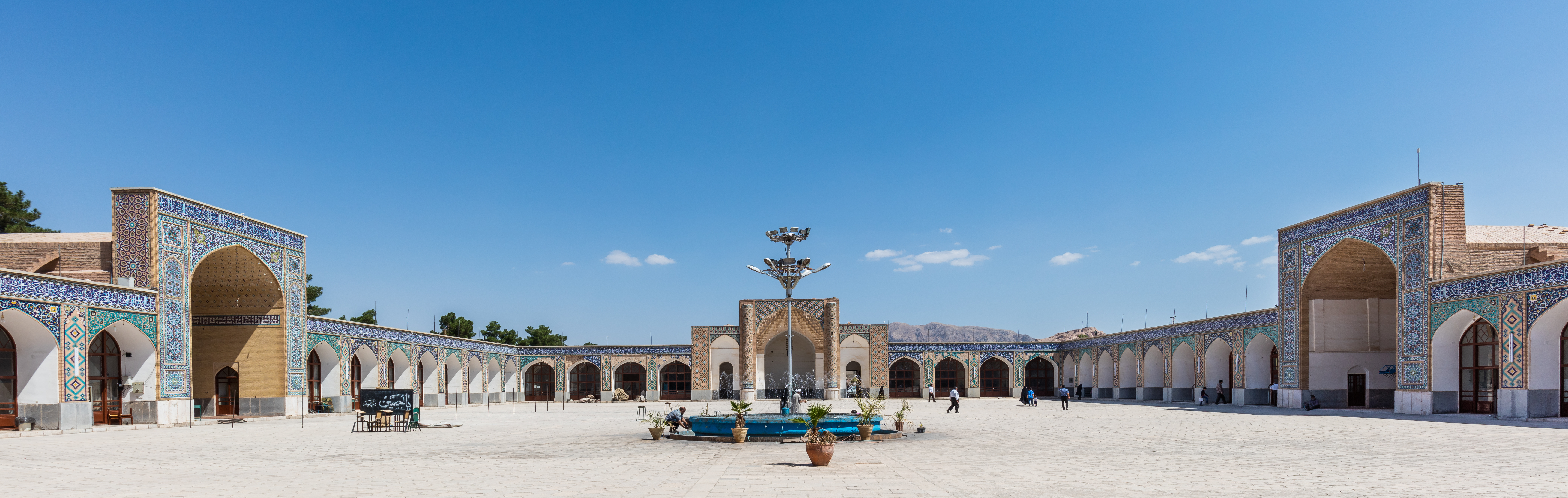 Malek mosque, Kerman, Iran